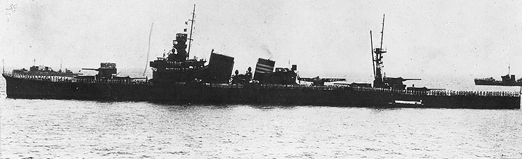 Heavy cruiser Furutaka in 1933 after 1932/33 reconstruction with new 120mm AA cannons and catapult installed. The crew is rendering honors on deck and superstructure. Česky: Těžký křižník Furutaka v roce 1933 s nastoupenou posádkou na palubě a nástavbách. Fotografie zachycuje stav po rekonstrukci z let 1932-1933: všimněte si nových 120mm kanónů a katapultu instalovaných během této přestavby.